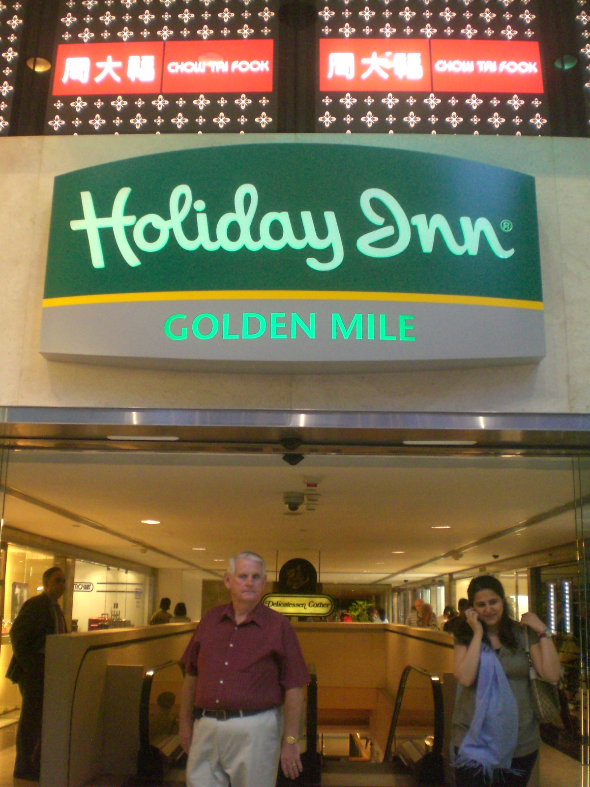 尖沙咀zh:香港金域假日酒店